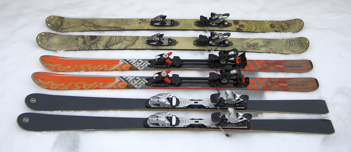 Comparison of skis, from back to front: Backcountry skis (2007 K2 Maid'N'AK) 179 cm, Sidecut (mm) 137-108-127 Allmountain skis with alpine touring binding (2007 Dynastar Legend 8000) 172 cm, Sidecut 116-80-102, Radius 19 m Carving skis (2011 Bogner Pure Black) 171 cm, Sidecut 119-70-100, Radius 16 m